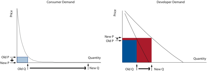 Diagram shows platform pricing high on the developer side and low on the consumer side. Authorhsip: Eisenmann, Parker, Van Alstyne